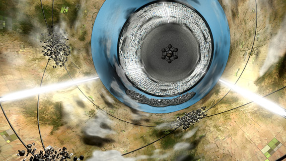 Various descriptions of the interior of Rama are scattered throughout the books that make up the series. This image was created using descriptions from the original Rendezvous with Rama and its sequel Rama II. 3D artist: James A. Ciomperlik.